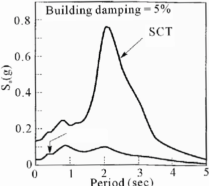 Response spectra of ground motions recorded at rock (UNAM) and soil sites (SCT) during Mexico city earthquake 1985.